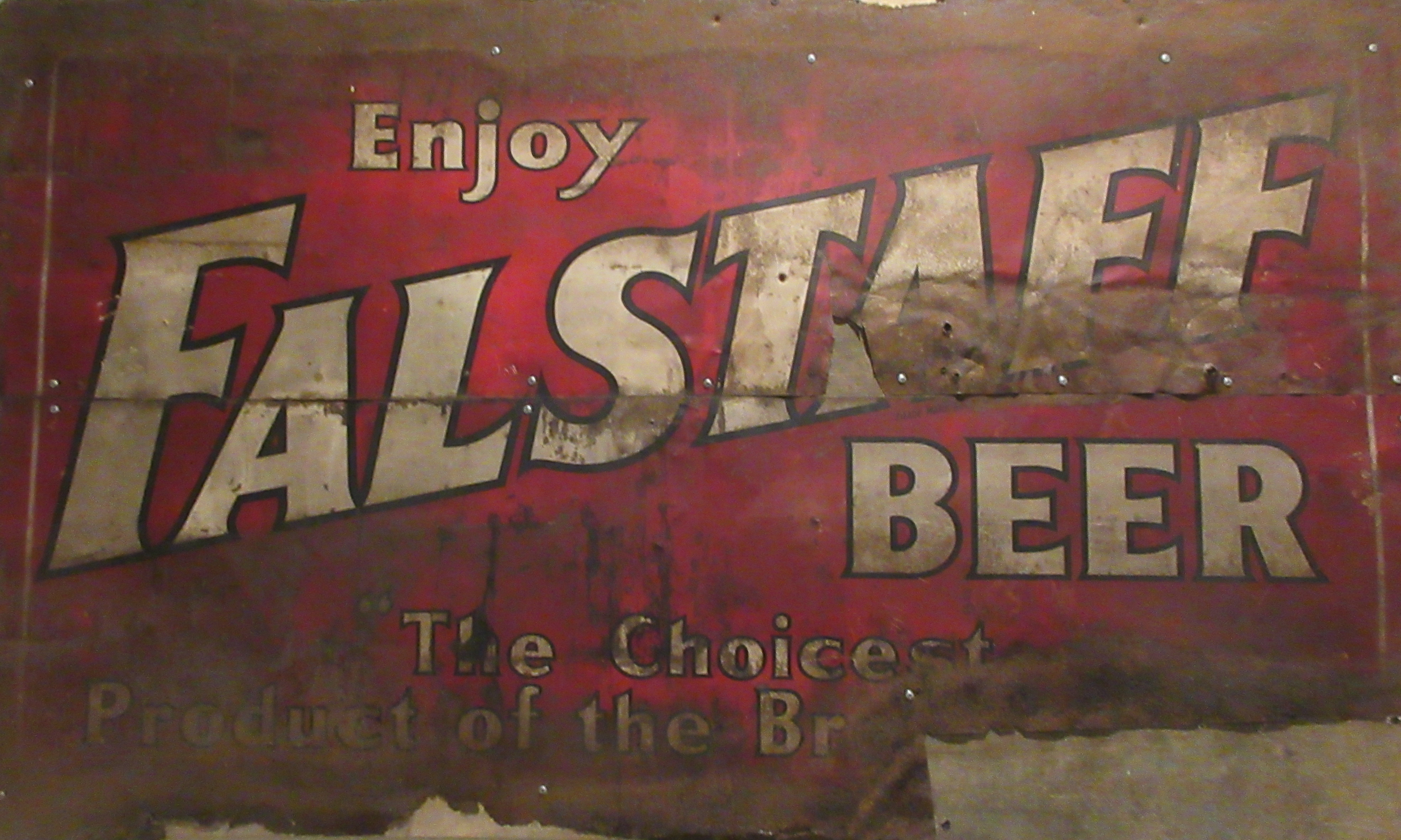 At Joey K's Restaurant, Uptown New Orleans, Louisiana, June 2018. Old "Falstaff" beer sign on the wall; the Falstaff brewery closed down generations ago. Photo by Infrogmation of New Orleans, June, 2018. Free reuse with author attribution in accordance with any of the licenses listed by the author/photographer. Reuse without photo attribution is a violation of copyright.